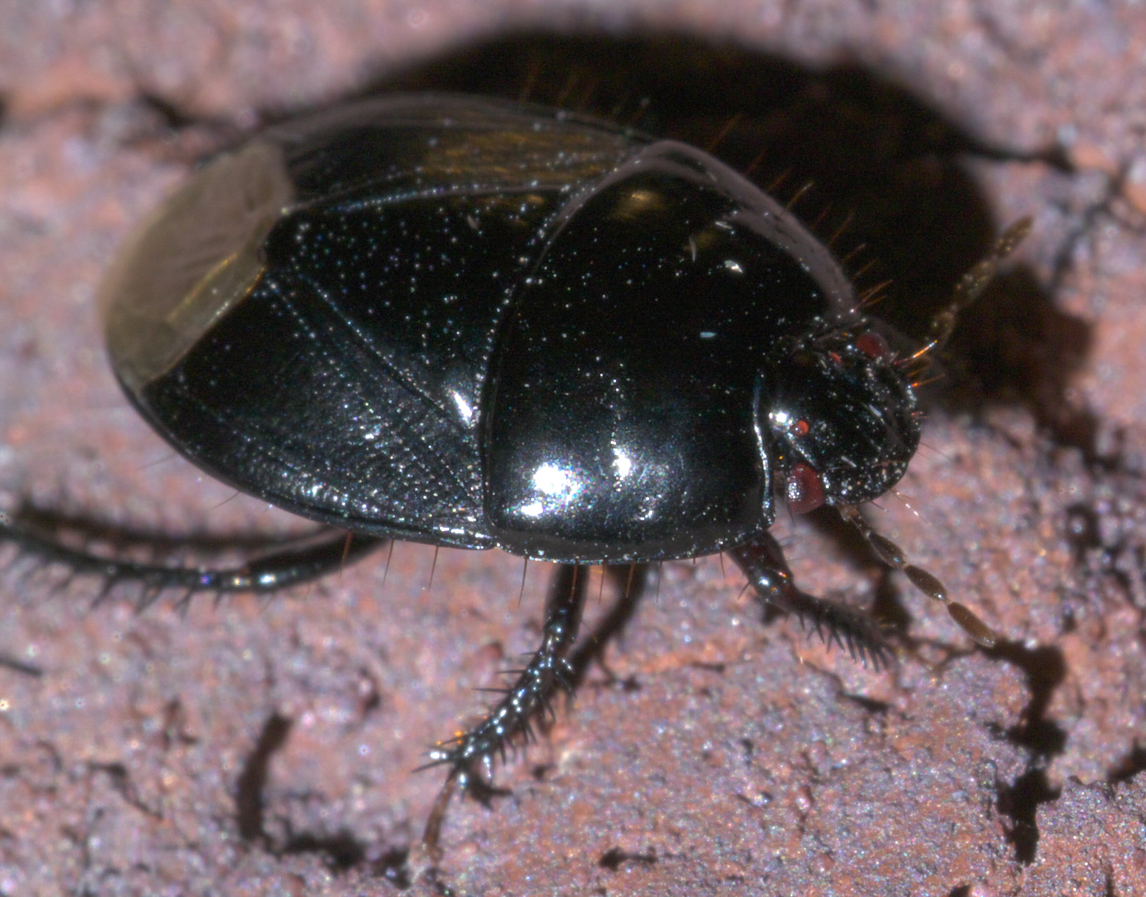 Pangaeus bilineatus, Family: Burrowing Bugs, Size: 6.8 mm, ID Confidence: 98